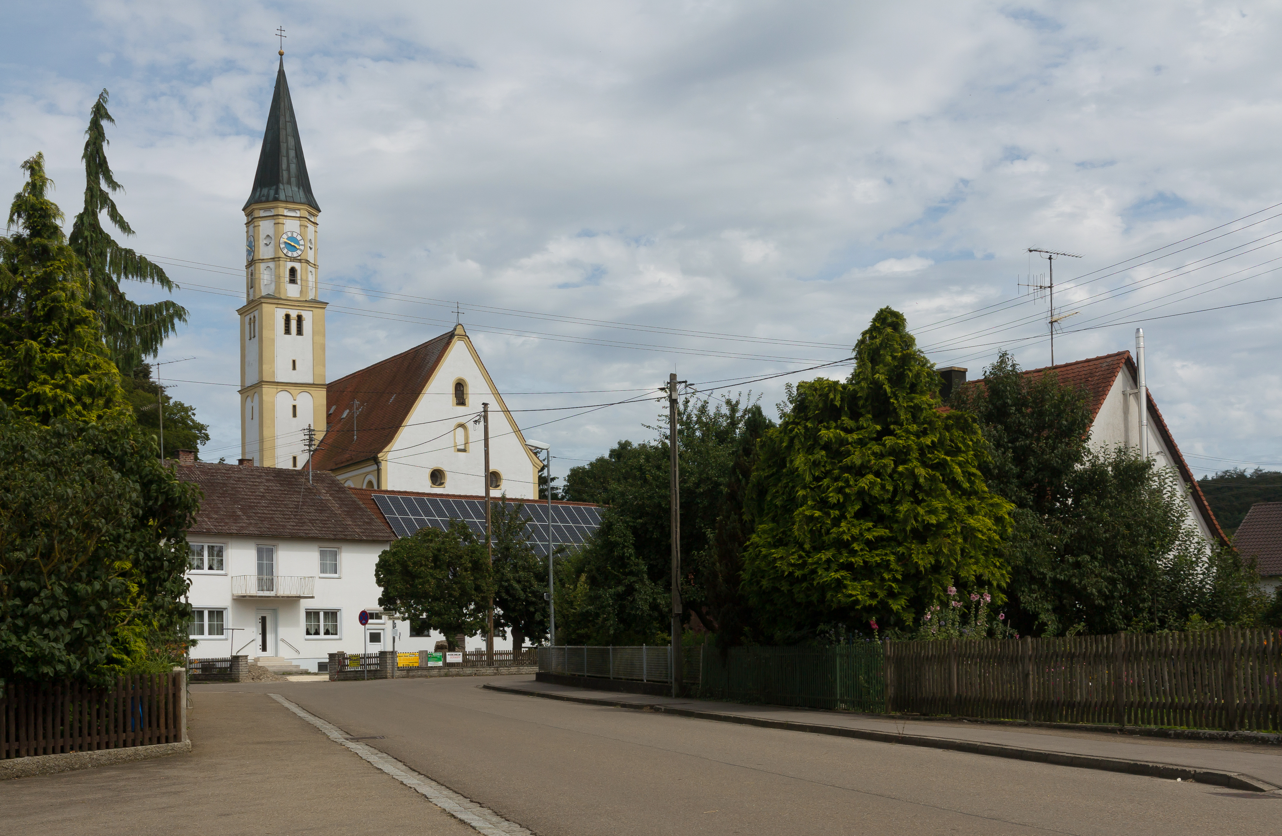 Finningen, church: die katholische Pfarrkirche Sankt. MartinThis is a photograph of an architectural monument.